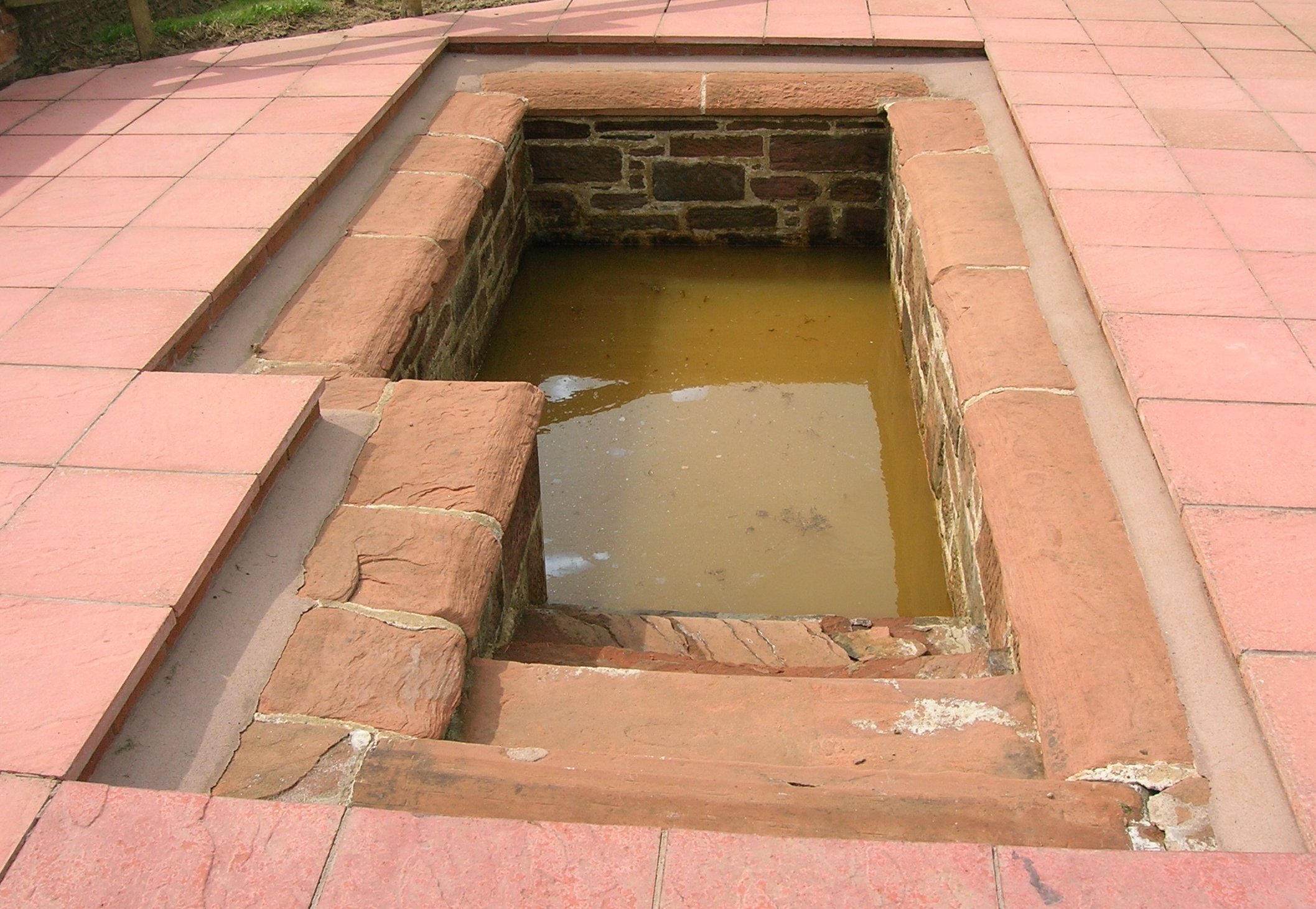 The Brow Well, Brow, Ruthwell, Dumfries & Galloway, Scotland. Robert Burns drank the waters here as part of his prescribed cure. He died 4 days later.